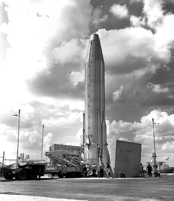 Convair SM-65F Atlas 39 551 SMS Site 08 Beatrice NE